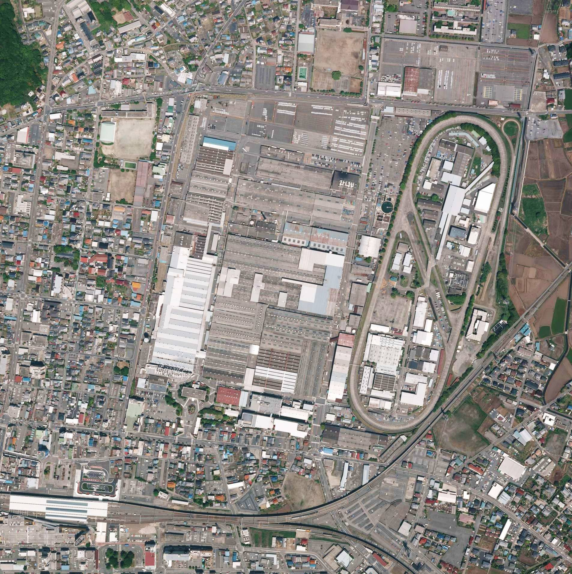 Subaru-cho, Ōta, Gunma.